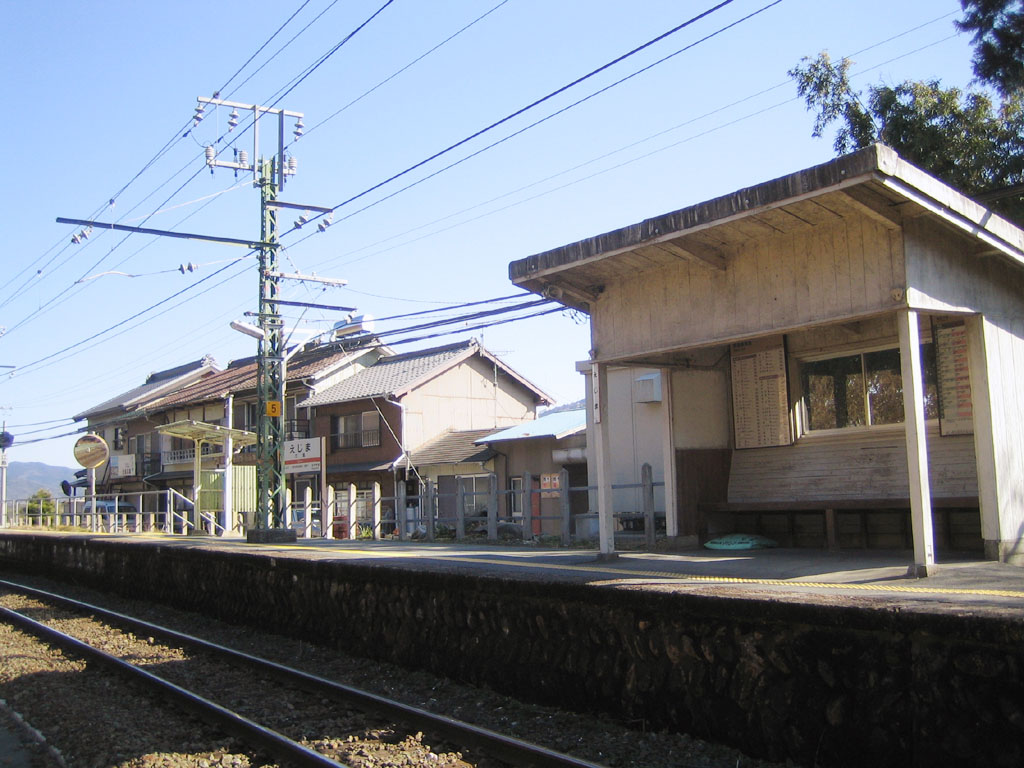 Ejima Station in Aichi, Japan